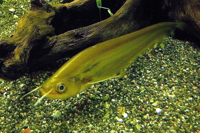 Twisted-jaw sheatfish Belodontichthys dinema (Bleeker, 1851)